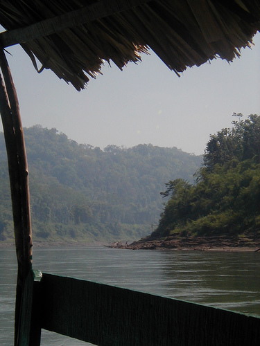 Returning from a boat tour to the Yaxchilan ruins, on the Usumacinta river.